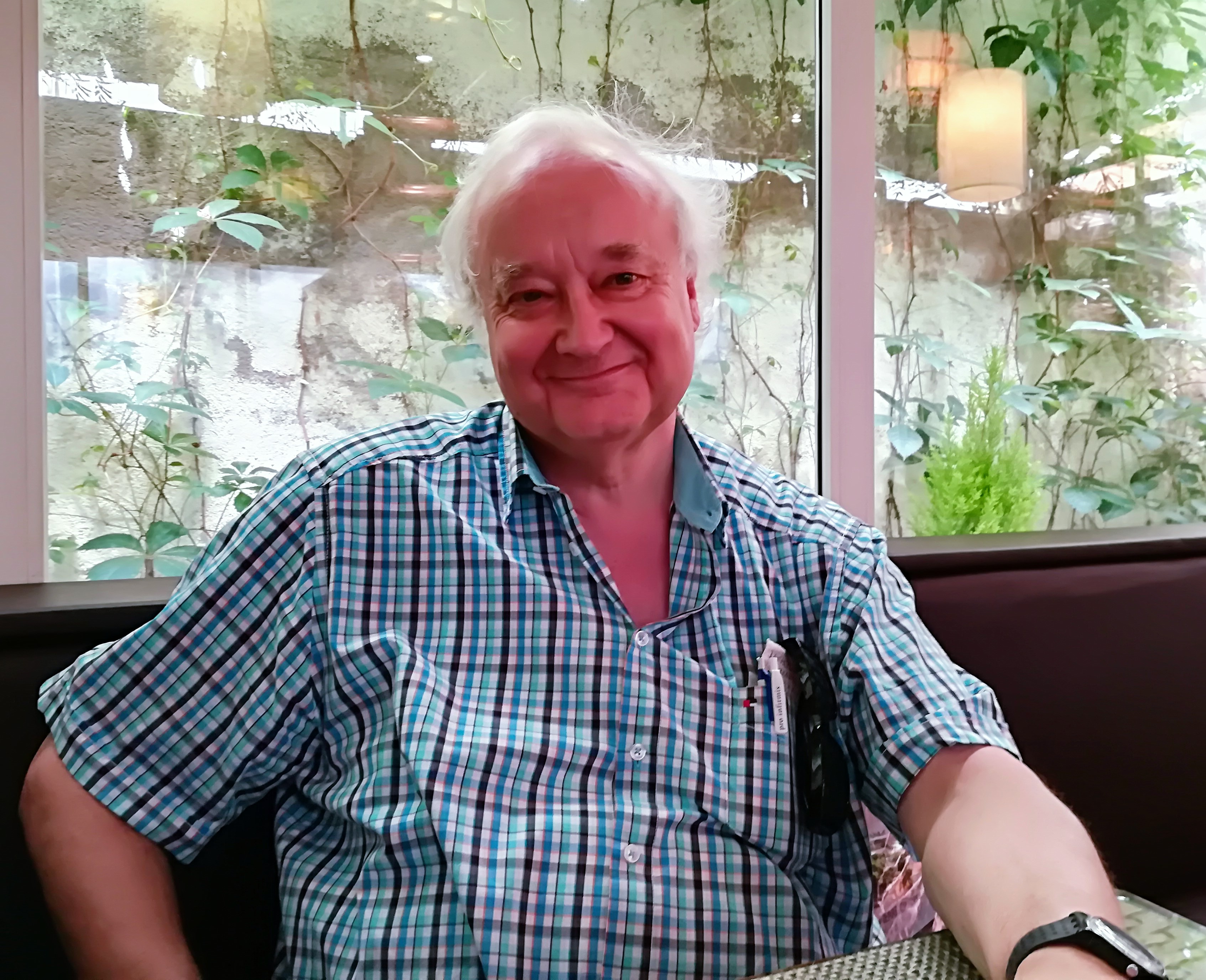 Stefan Vanistendael